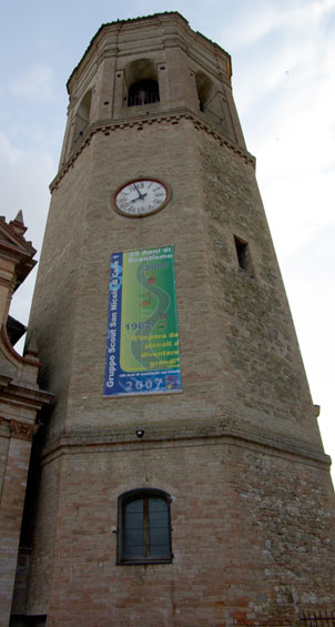 Scout san nicolò di celle 1